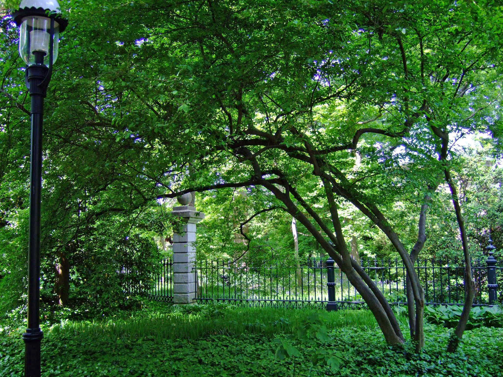 Possumhaw, Ilex decidua, growing at the Missouri Botanical Garden. According to the adjacent sign, this specimen is a State Champion, i.e., the largest tree of its species in the state of Missouri.